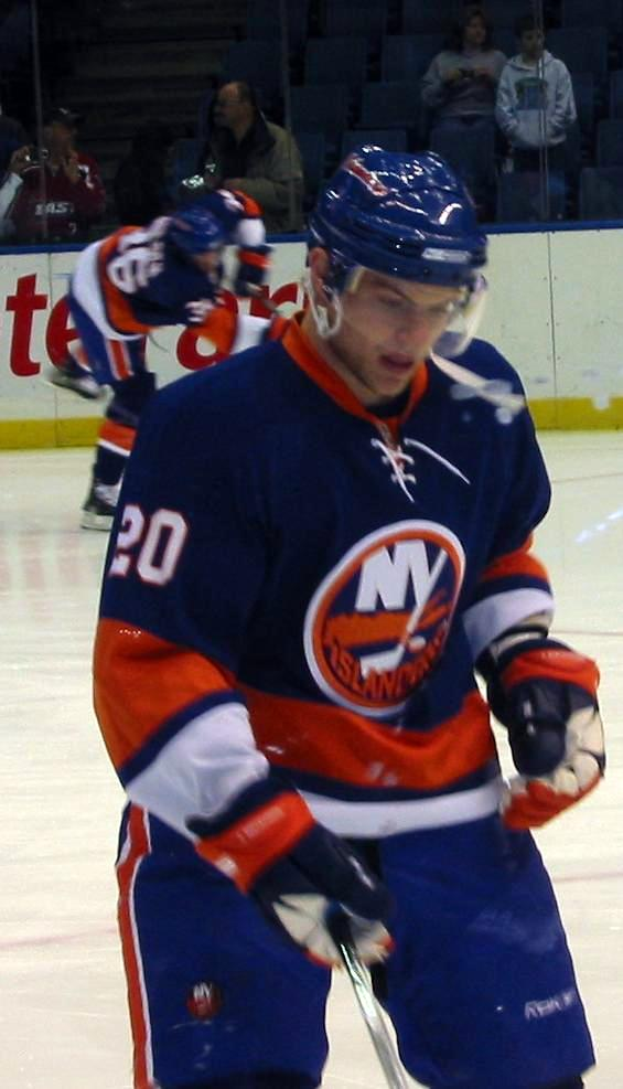 Sean Bergenheim at a New York Islanders game.